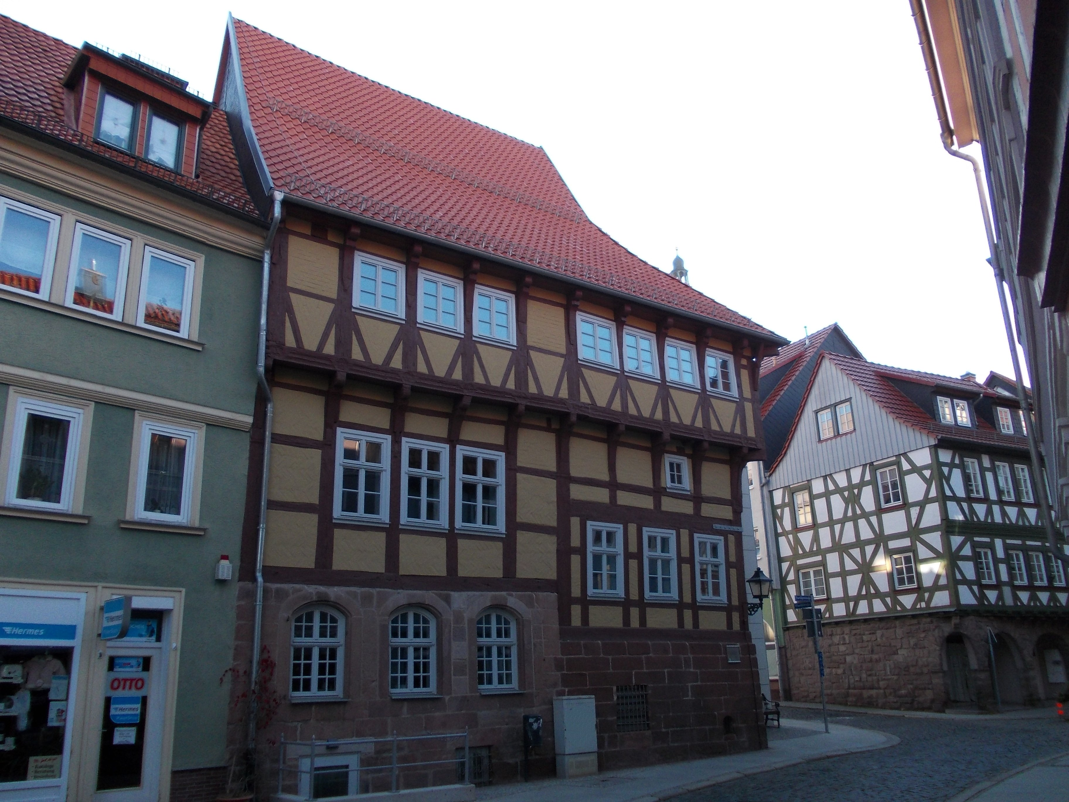 Flohburg ("flea castle") in Nordhausen (Thuringia)